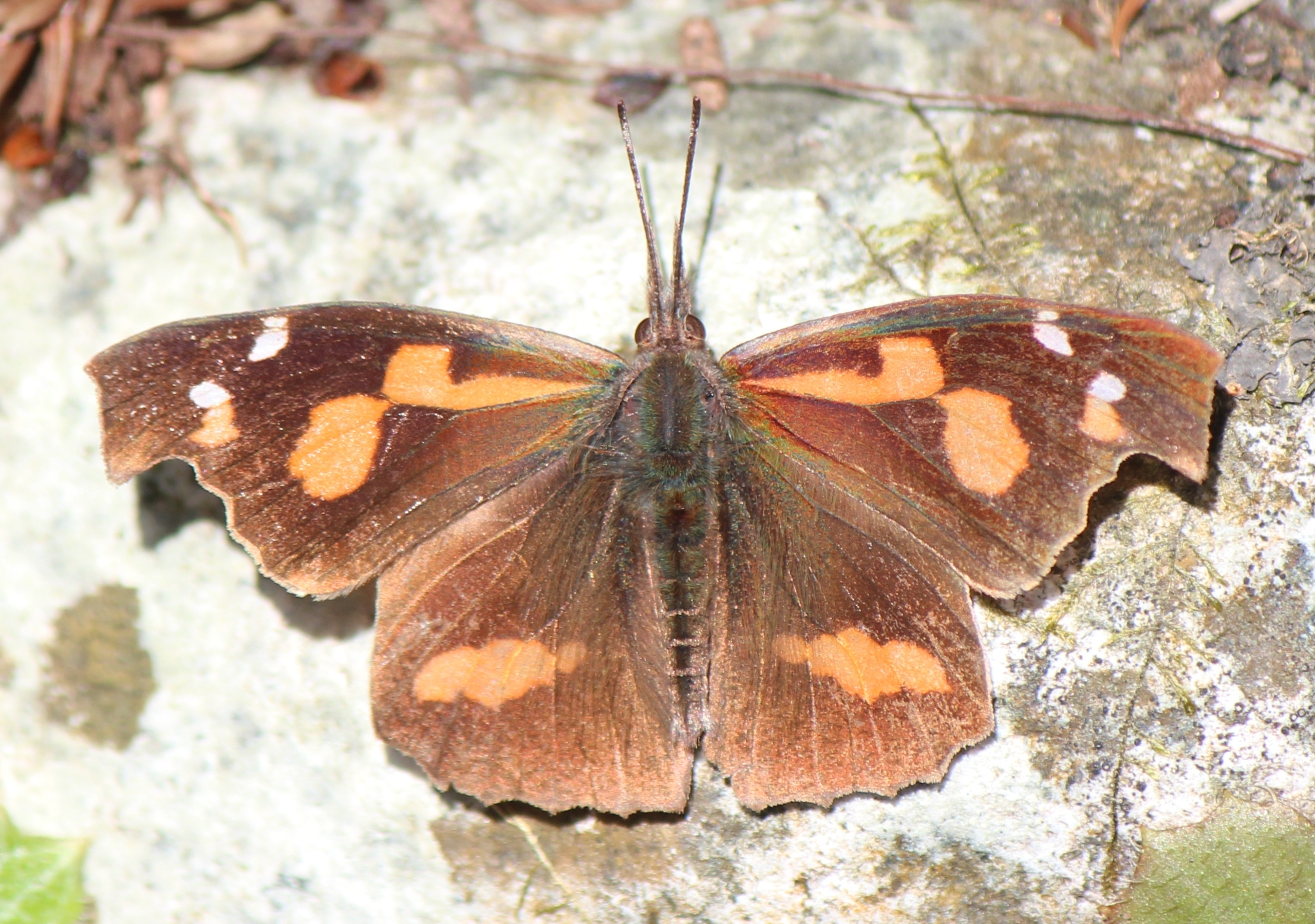 Libythea celtis celtoides in Japan